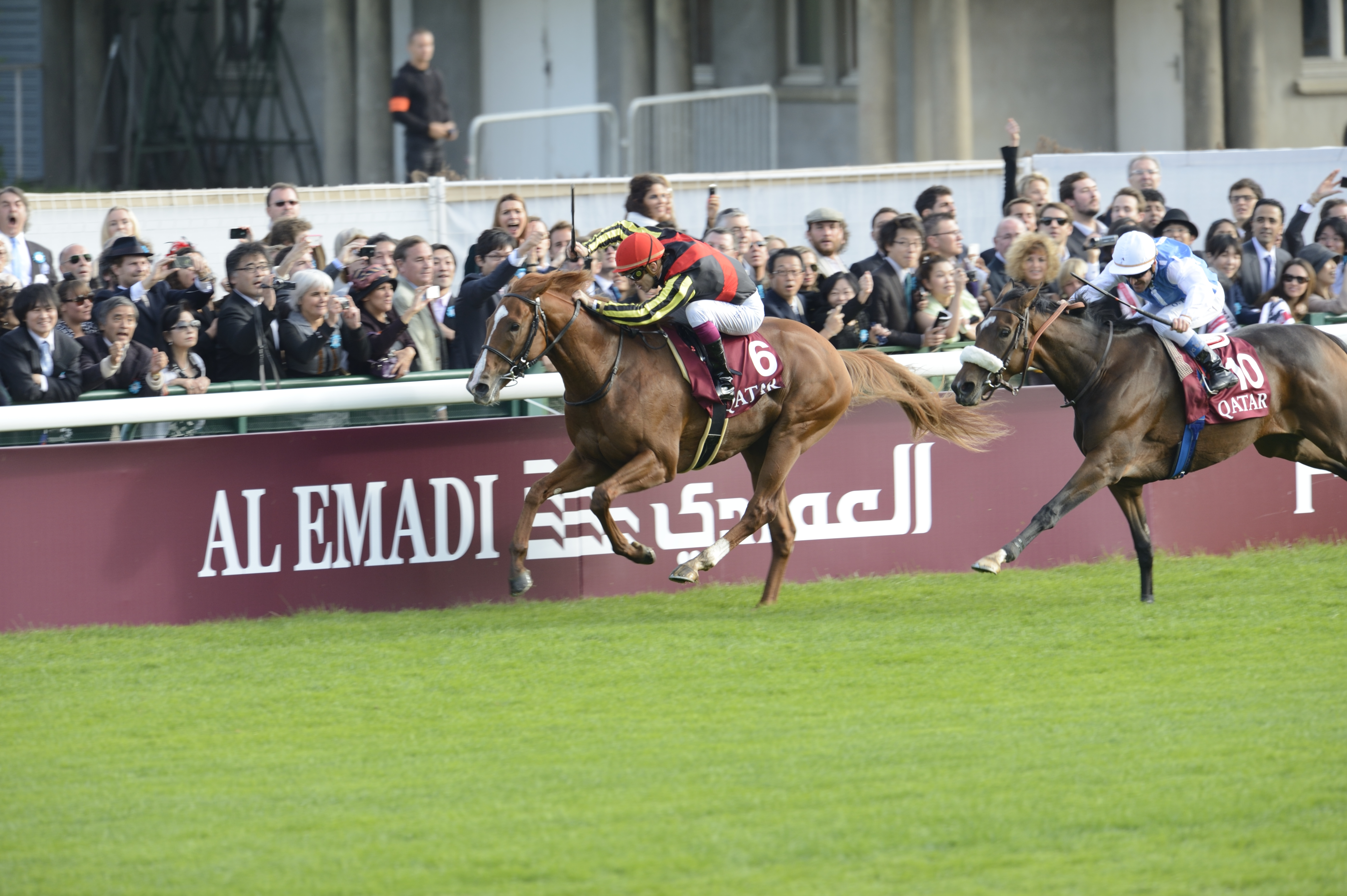 Orfevre-Japanese Horse- was running along with Solemia at Arc de Triumphe 2012